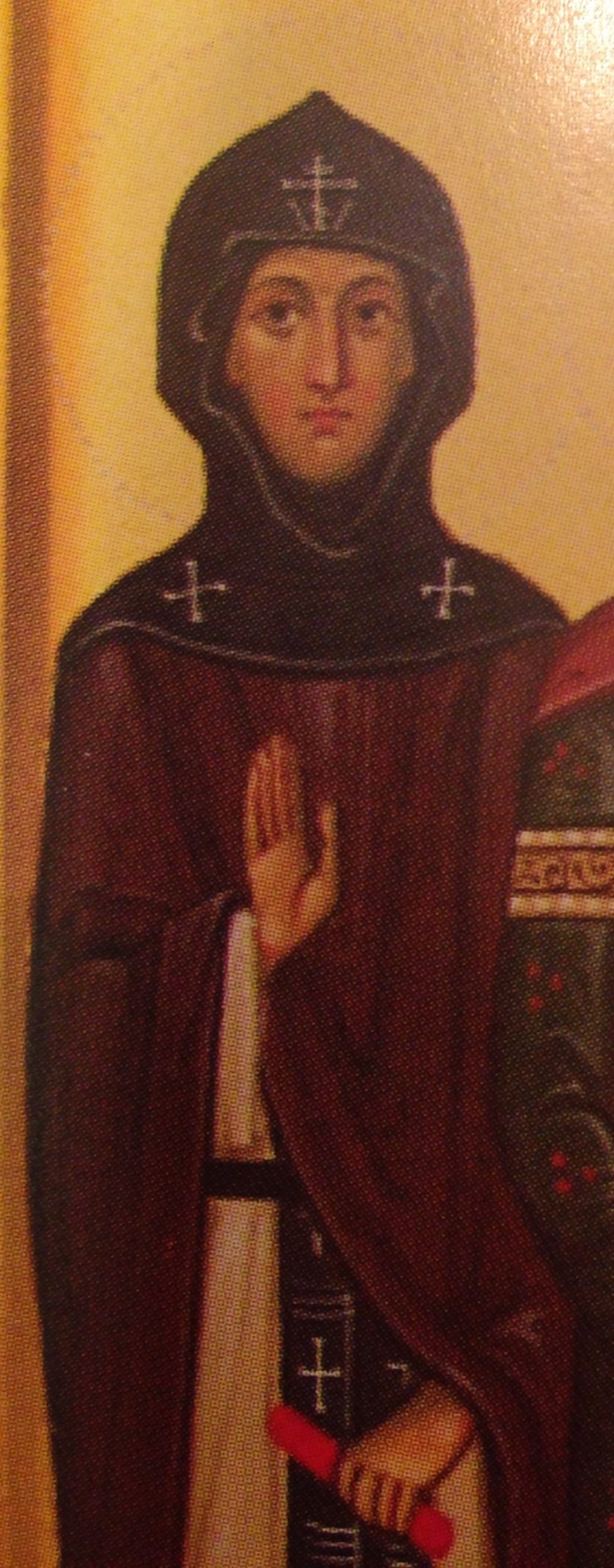 Saint Anfusa (part of the greec icon)